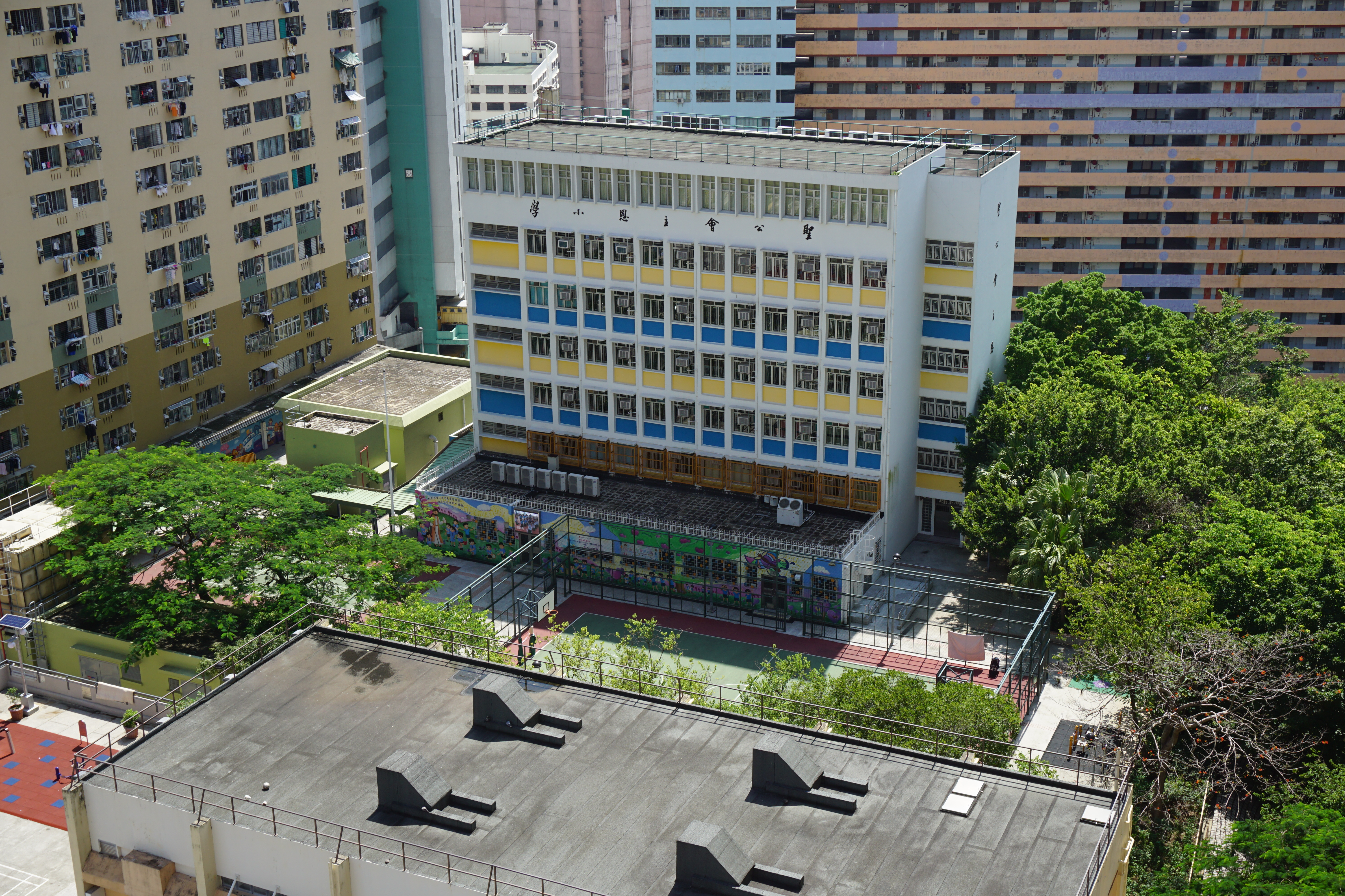 SKH Chu Yan Primary School in Kwai Shing West, Hong Kong.